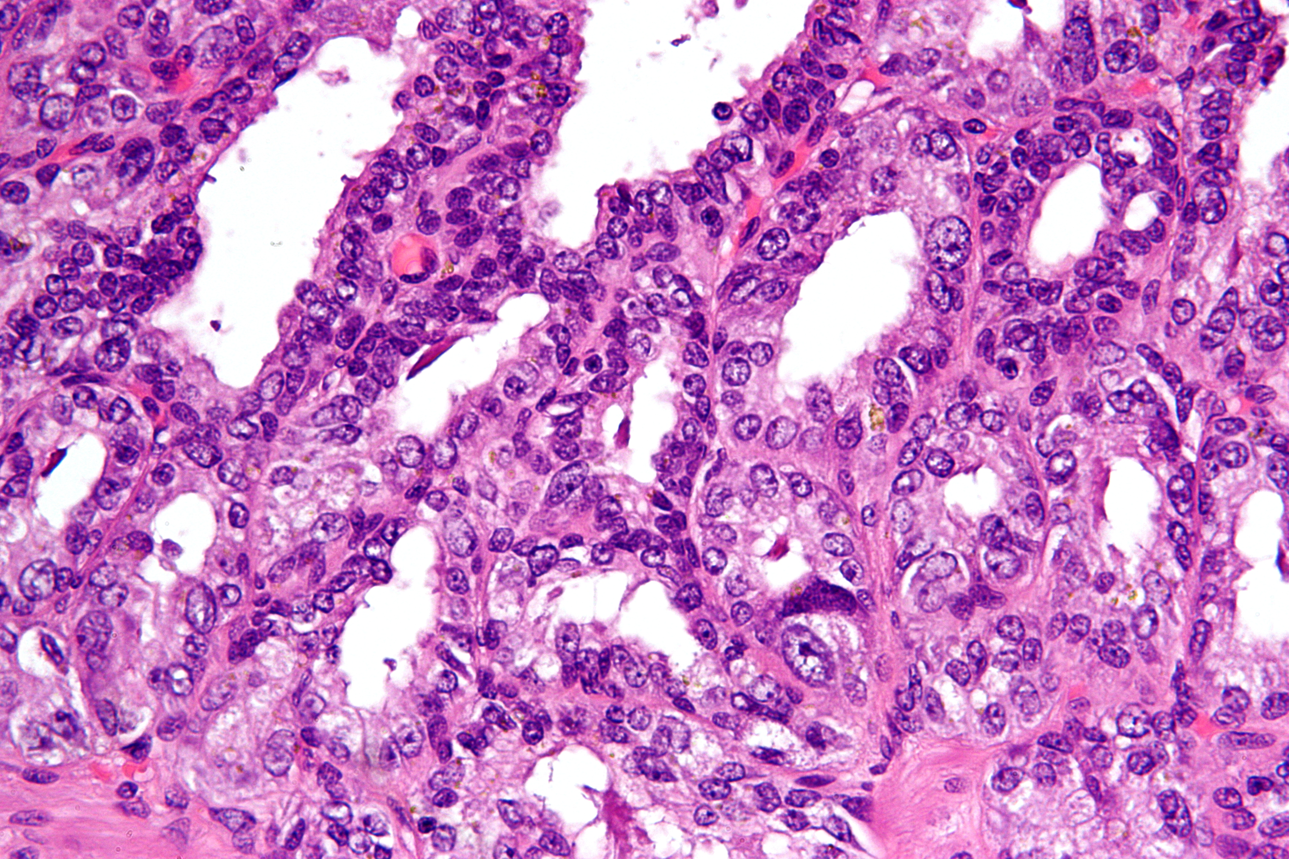 High magnification micrograph of seminal vesicle. H&E stain. Prostatectomy specimen. The epithelium of seminal vesicle is the same as ejaculatory duct.[1] References ↑ Leroy X, Ballereau C, Villers A, et al. (April 2003). "MUC6 is a marker of seminal vesicle-ejaculatory duct epithelium and is useful for the differential diagnosis with prostate adenocarcinoma". Am. J. Surg. Pathol. 27 (4): 519–21. PMID 12657938. Related images Low mag. Intermed. mag. High mag.